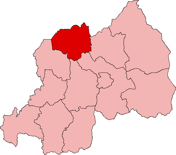 Map of Rwanda showing Ruhengeri Province; created with the GIMP. Made by User:Acntx.